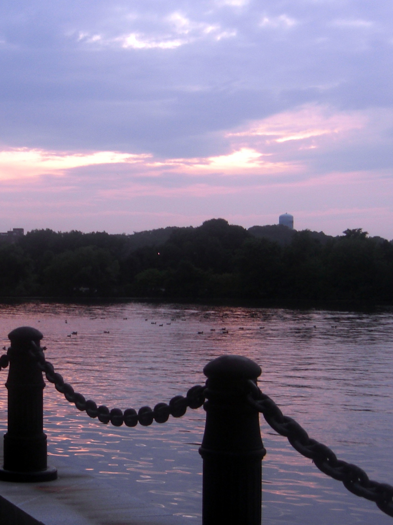 The Charles River Walk in Waltham.